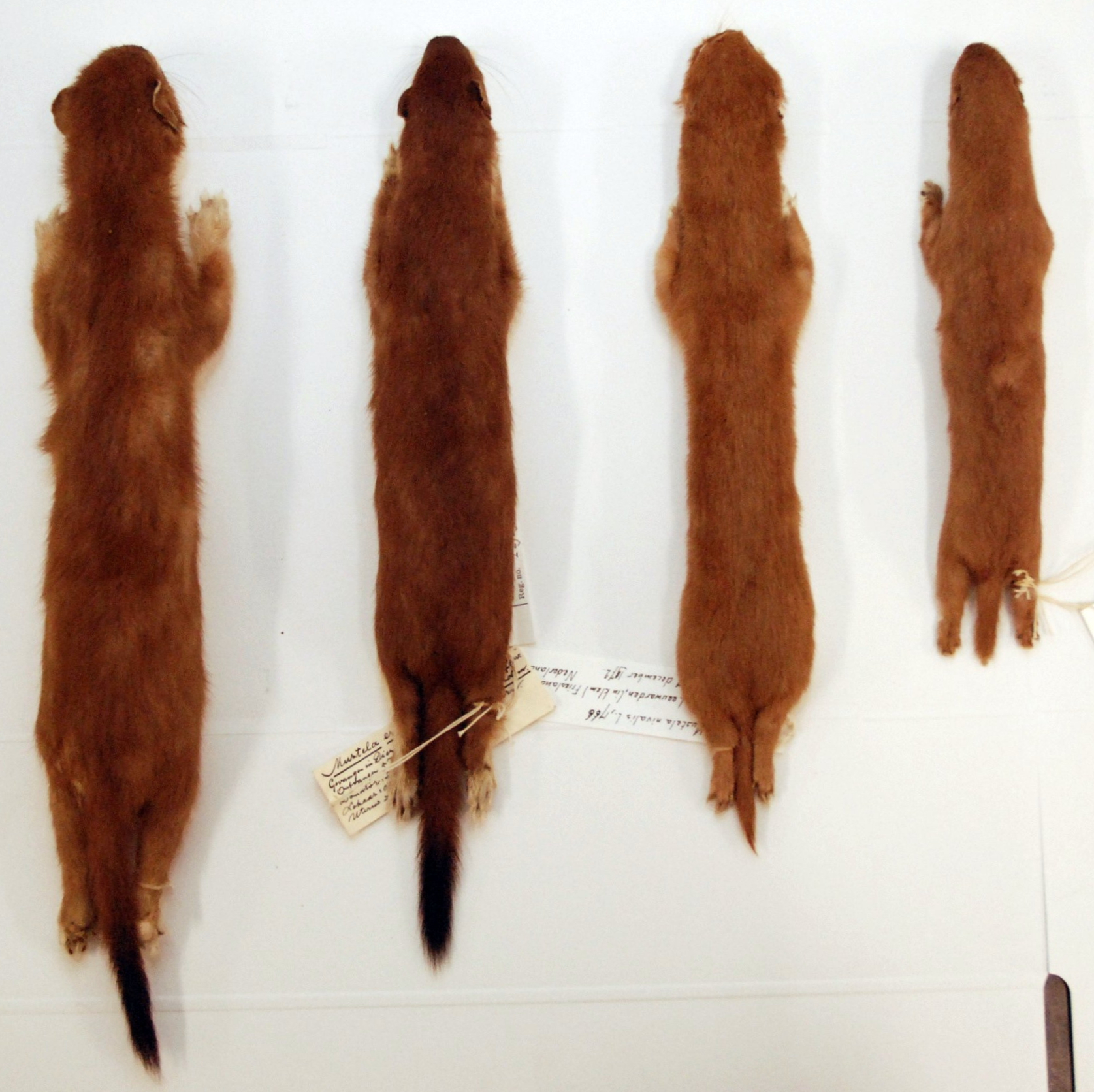 Two on left: mustela erminea Two on right: mustela nivalis vulgaris National Museum of Natural History Naturalis, Leiden, The Netherlands